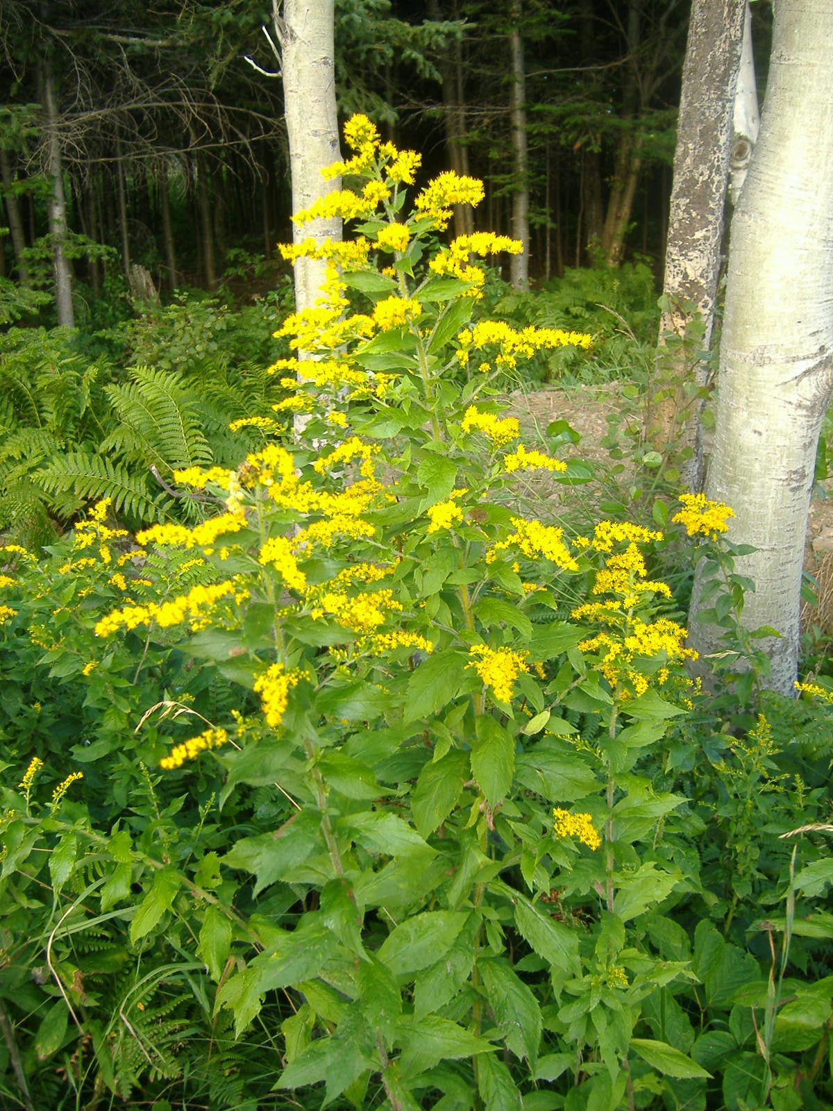 Picture of Solidago rugosa taken in Trois-Pistoles, Les Basques, Québec, Canada, on the 17th of August, 2009.